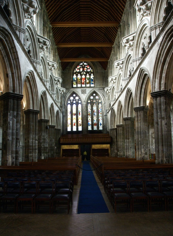 Paisley Abbey, Paisley, Renfrewshire, Scotland. Nave.